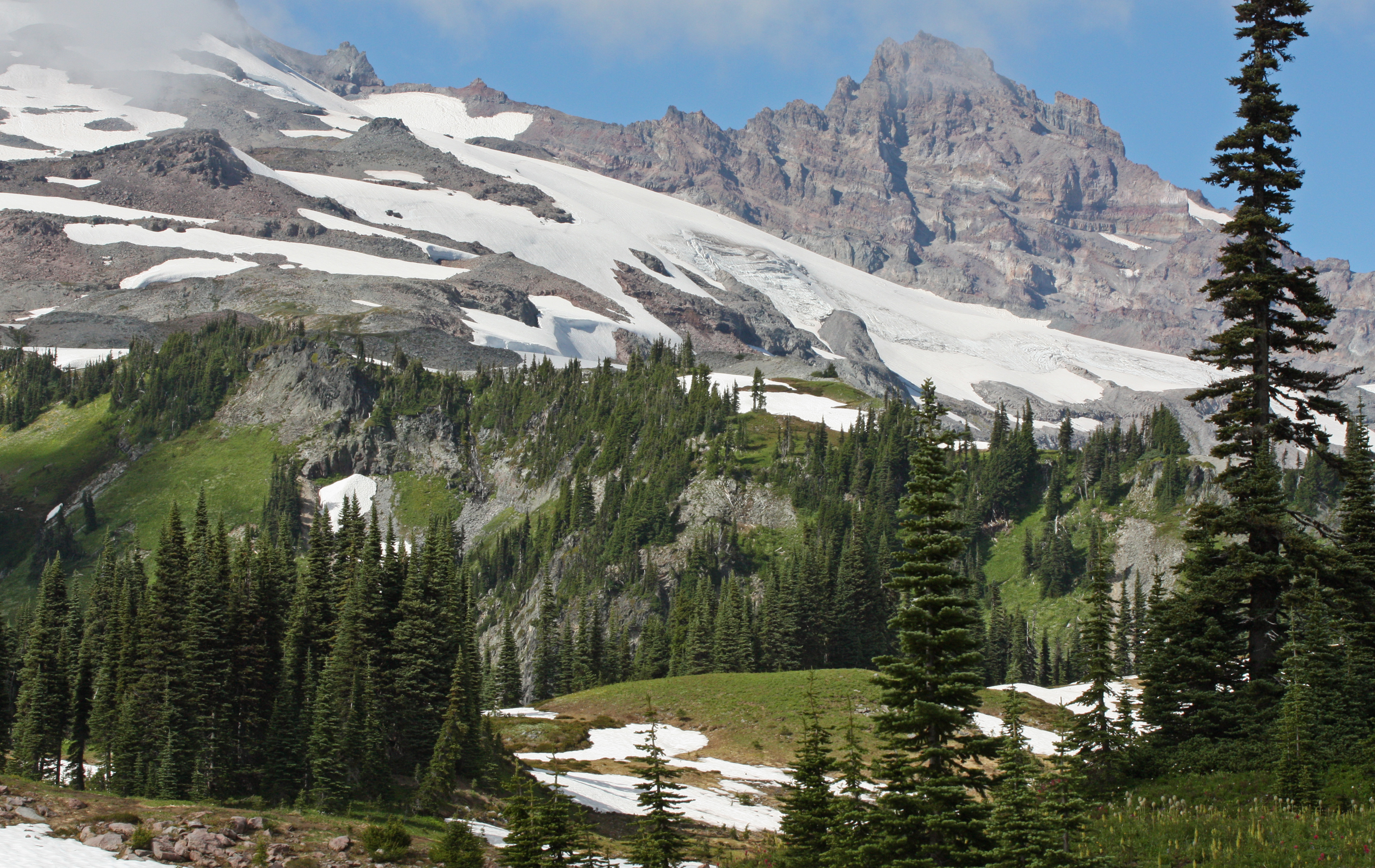 Subalpine Fir; Little Tahoma (right center skyline, 11138 feet); Paradise Glacier (middle distance)